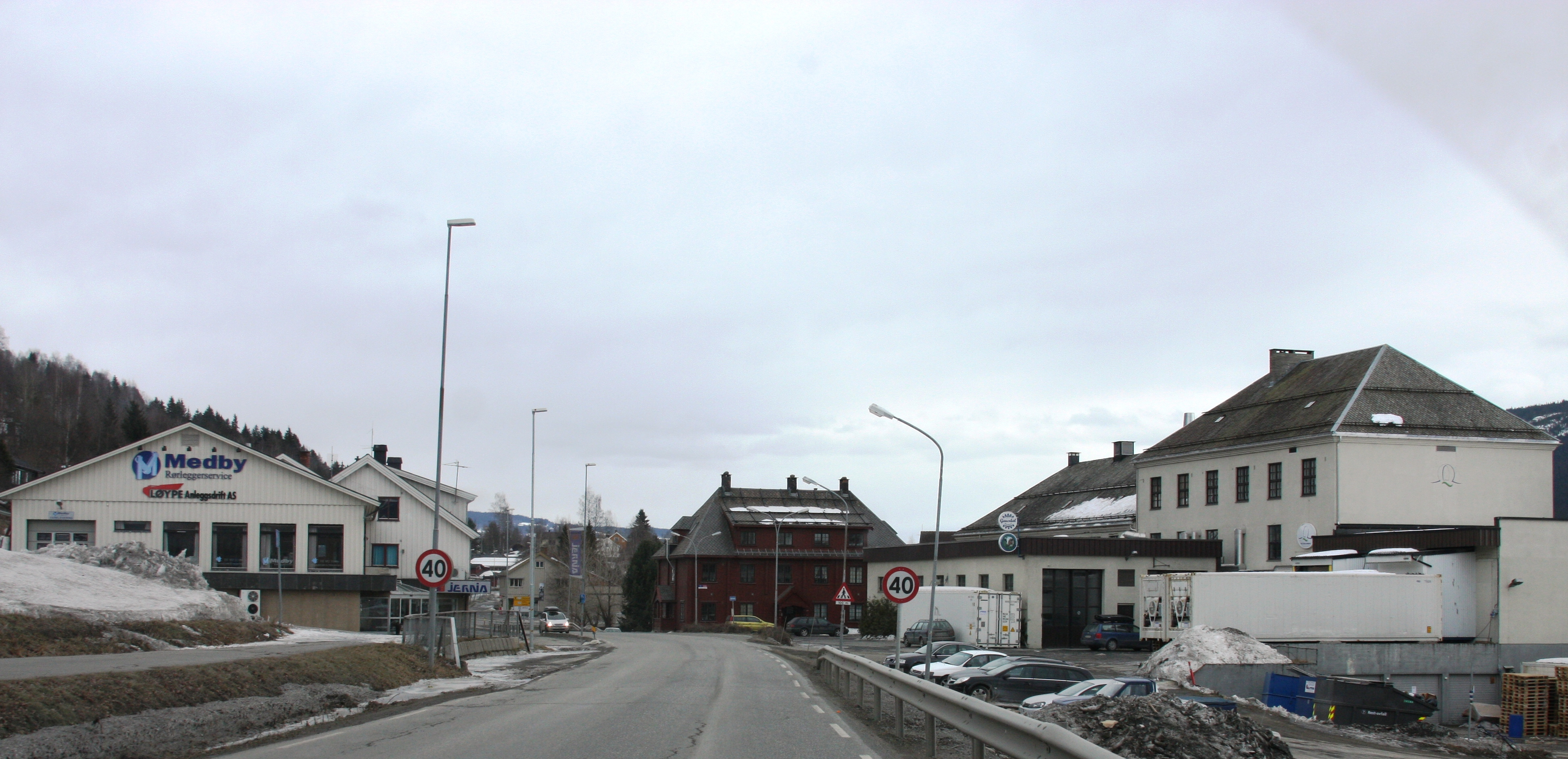 Segalstad bru, village and center of Gausdal municipality, Oppland, Norway.